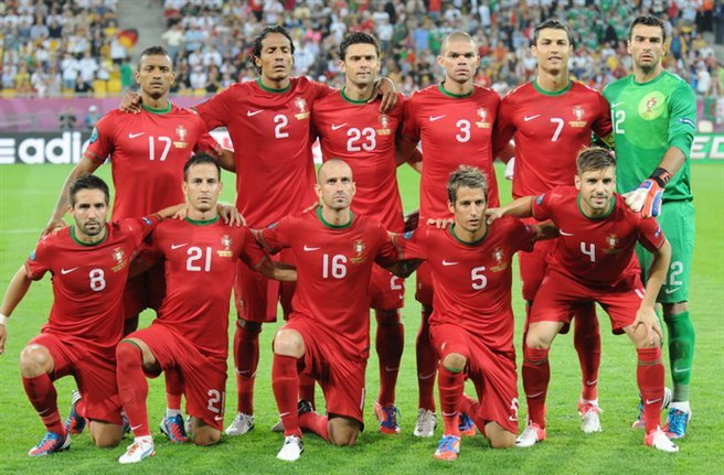 Match between Germany and Portugal during UEFA Euro 2012 that took place in Lviv. Final score was 1:0 (Gómez).